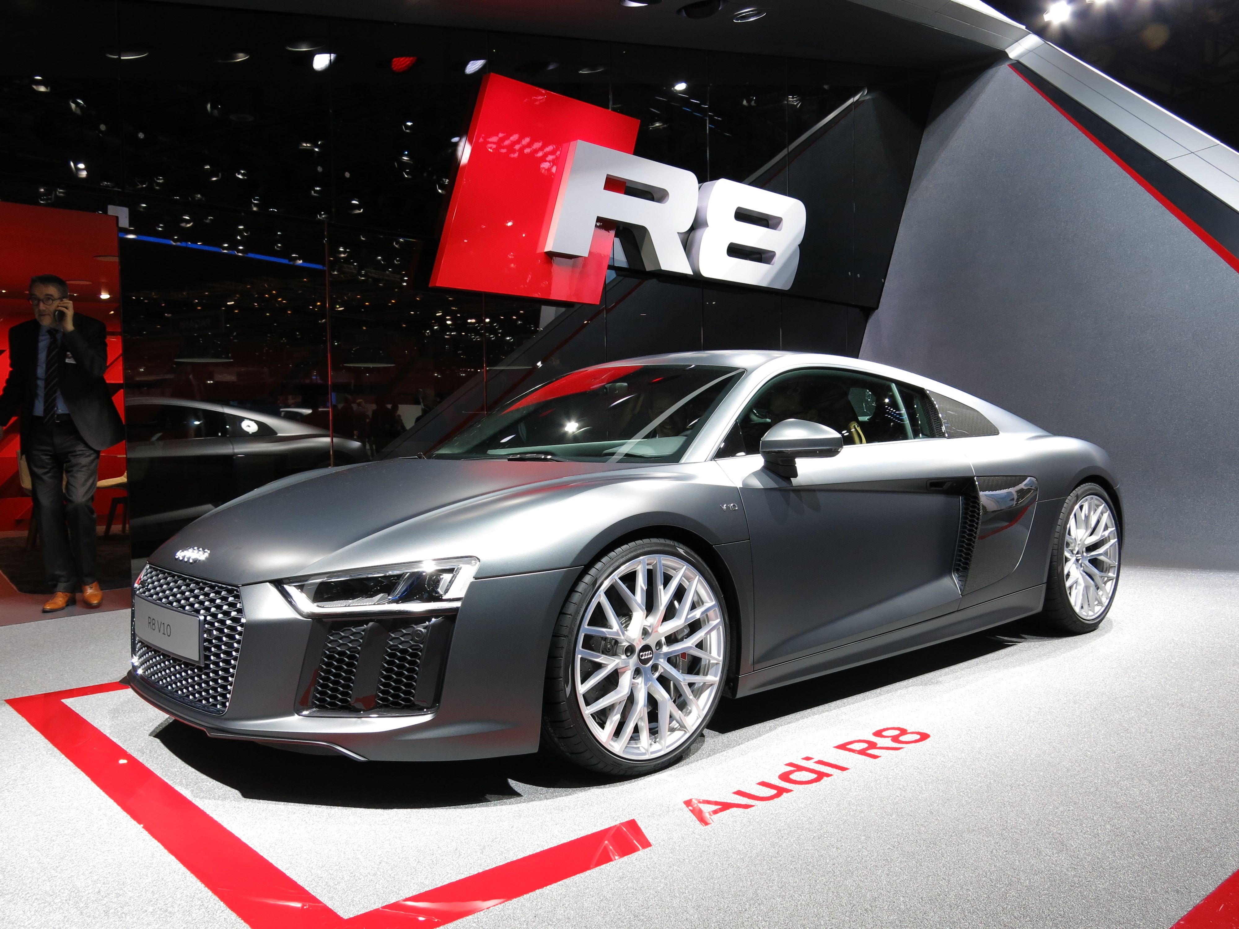 Geneva Motor Show 2015 (photo taken on the first press day)